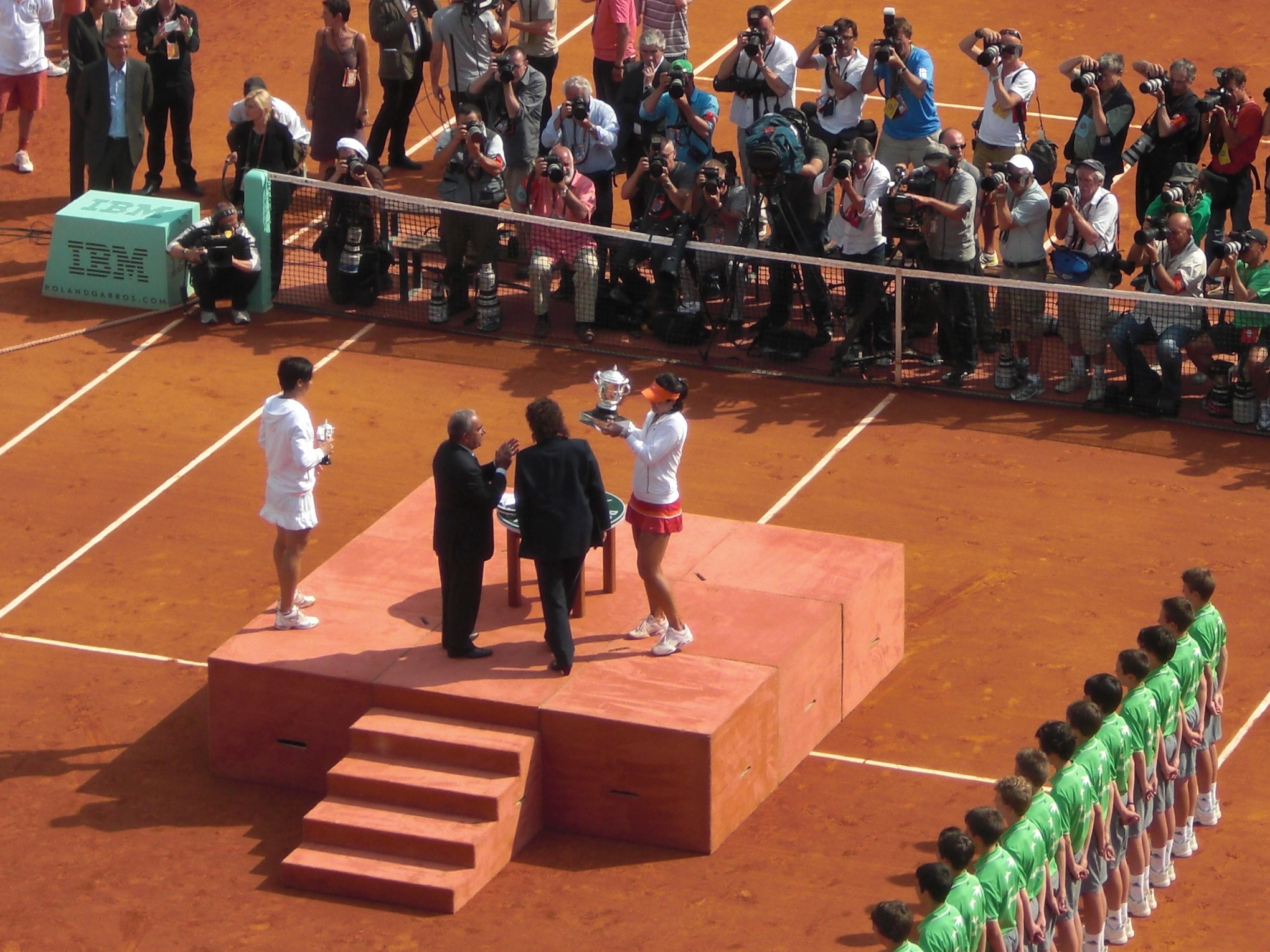 Award ceremony after the women's singles final at the 2011 Roland Garros. Li Na and Francesca Schiavone.